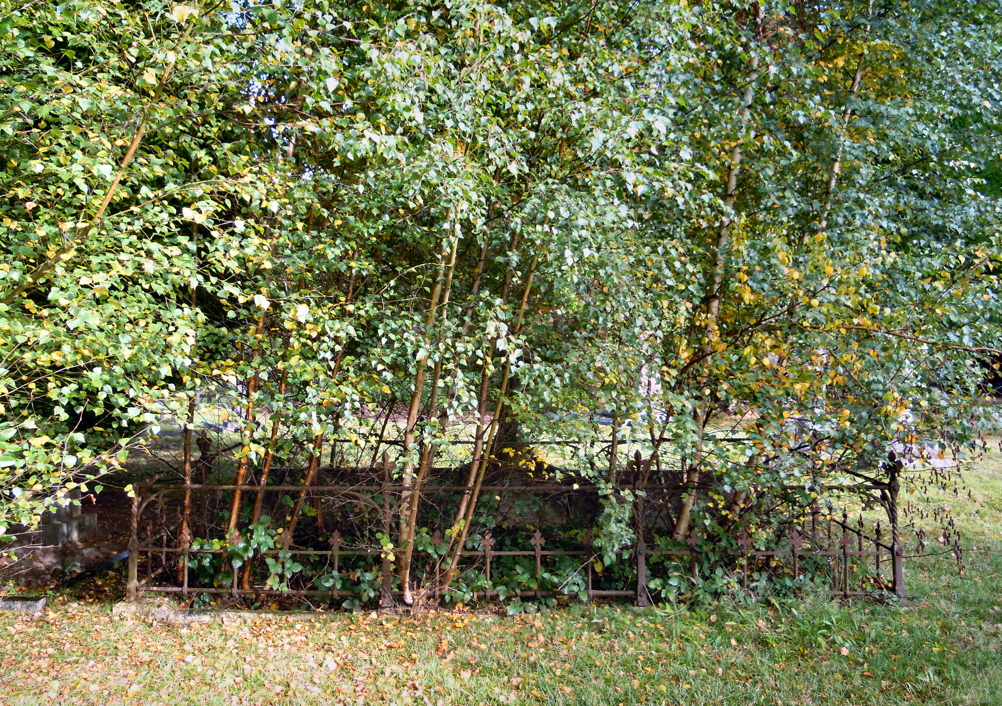 The grave of Edward Codrington in Brookwood Cemetery